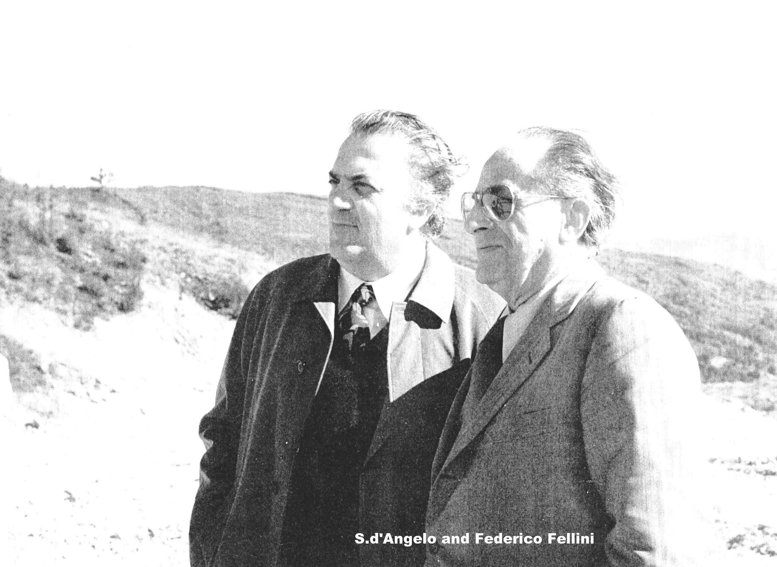 Federico Fellini had a great admiration for Salvo d'Angelo as an unconventional producer. This photo was taken during a visit he paid to S.d'Angelo in his home at Santa Brigida (Florence, Italy) in 1979